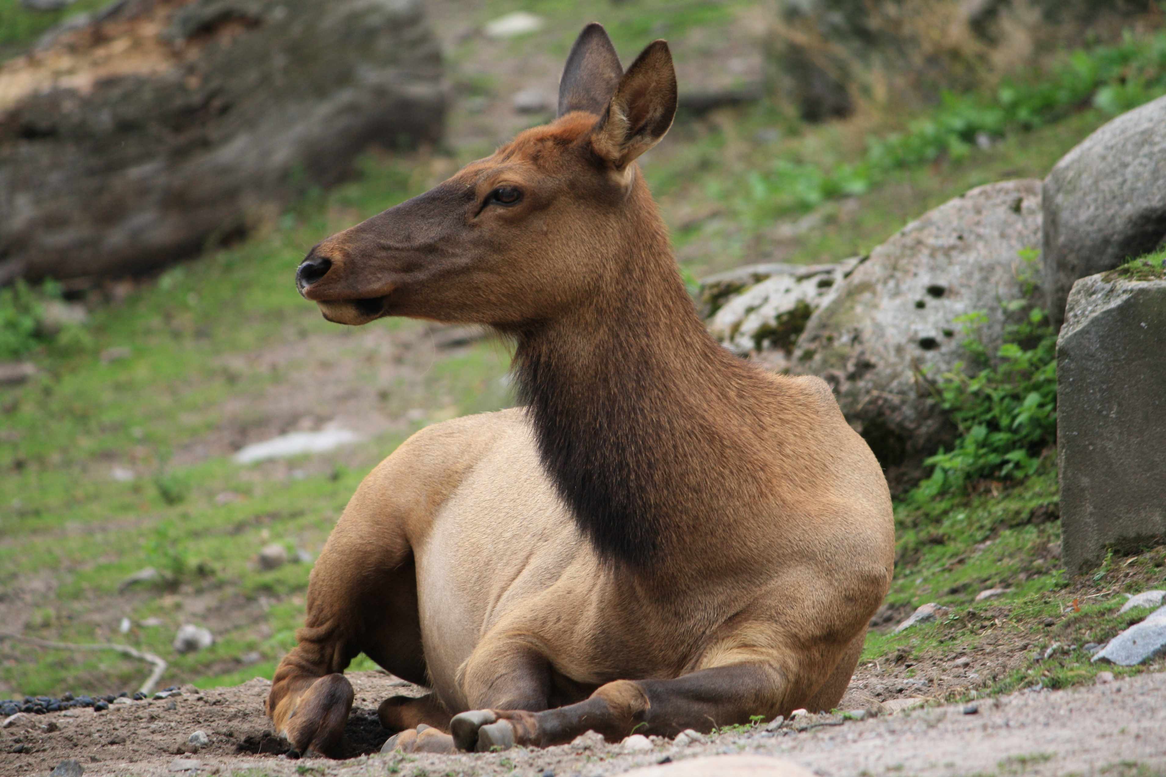 An elk resting on the ground at the Helsinki Zoo.